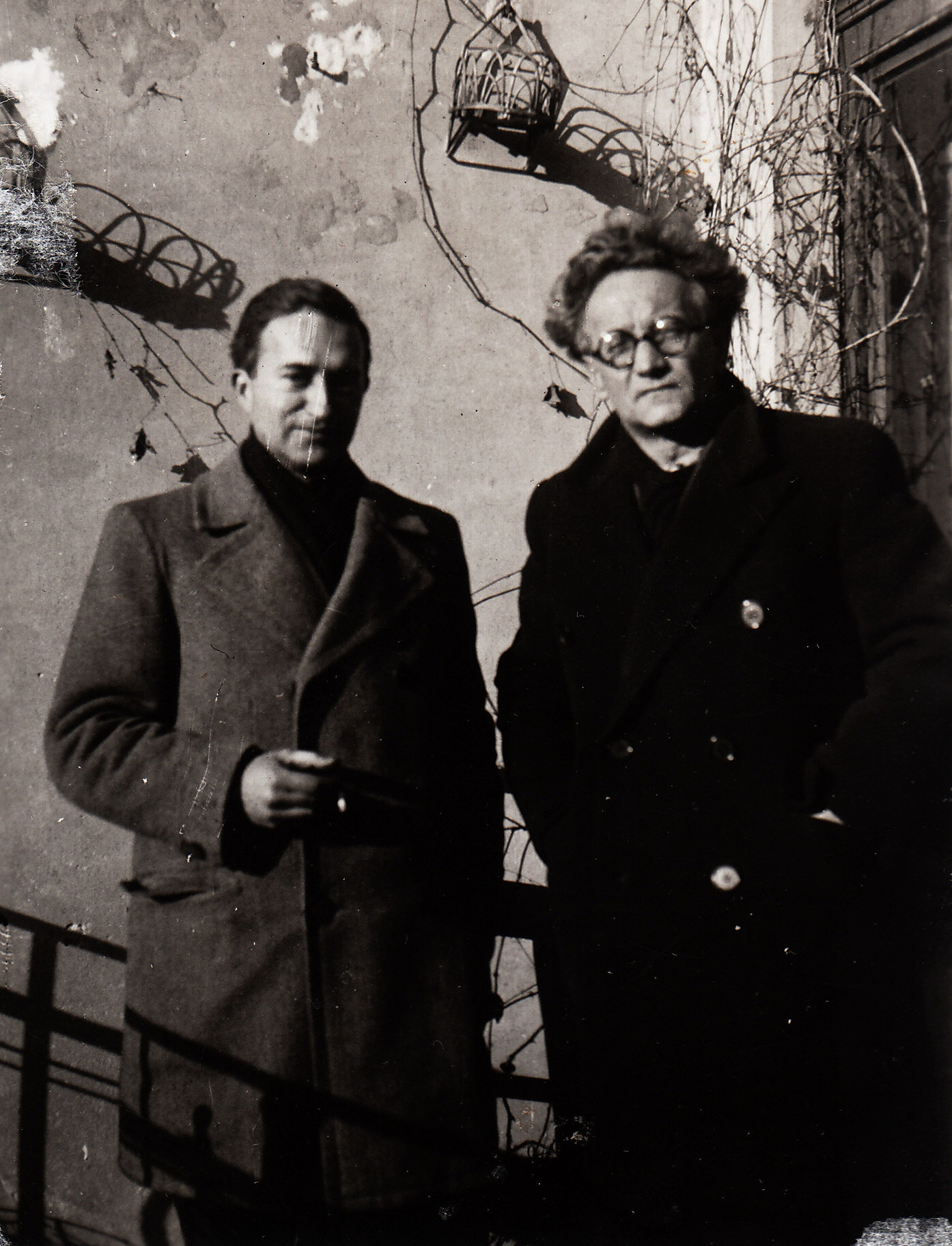 Pavle Stefanović and Josip Slavenski, 1938. Srpski (latinica): Pavle Stefanović i Josip Slavenski, 1938.